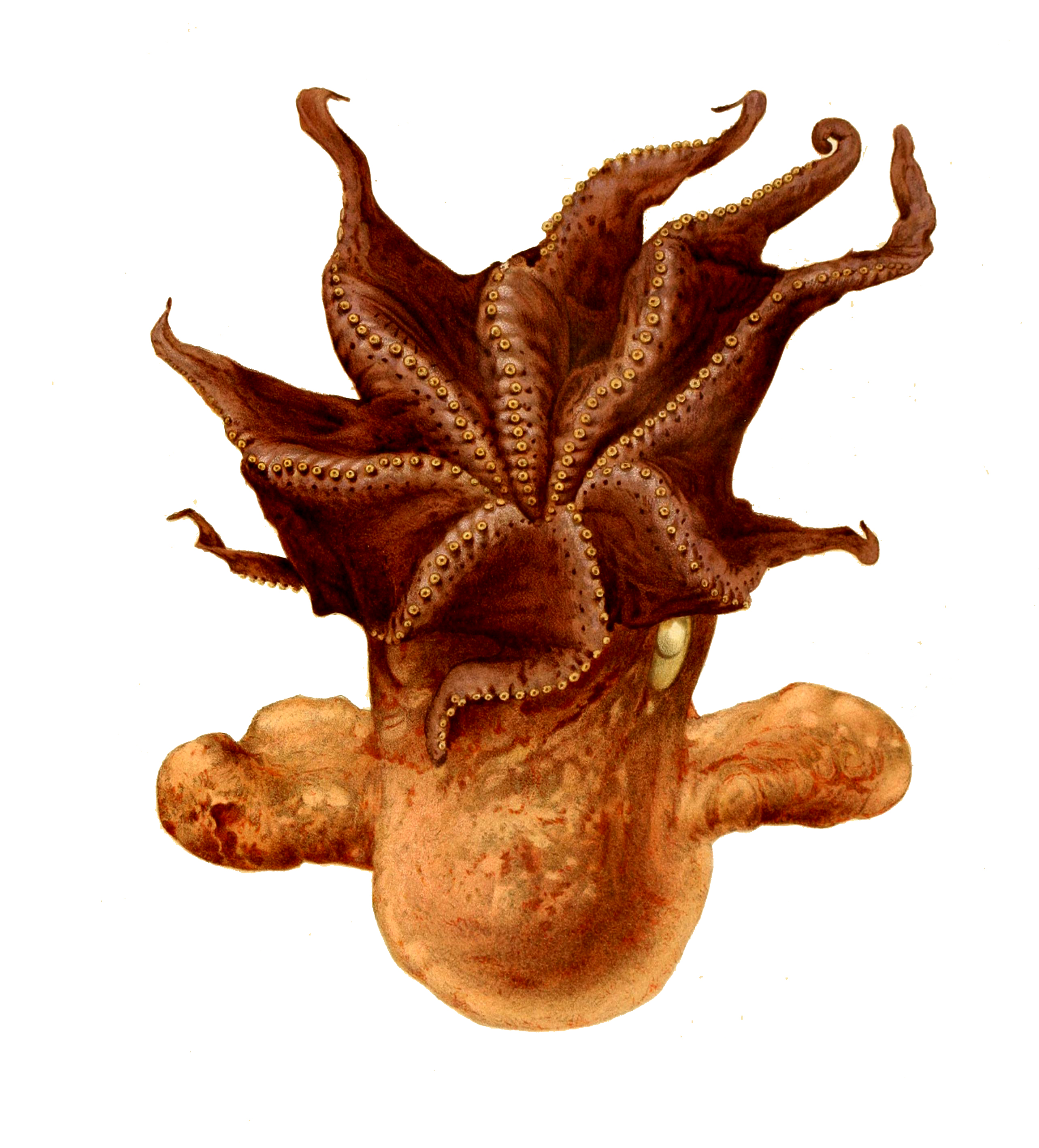 Grimpoteuthis umbellata